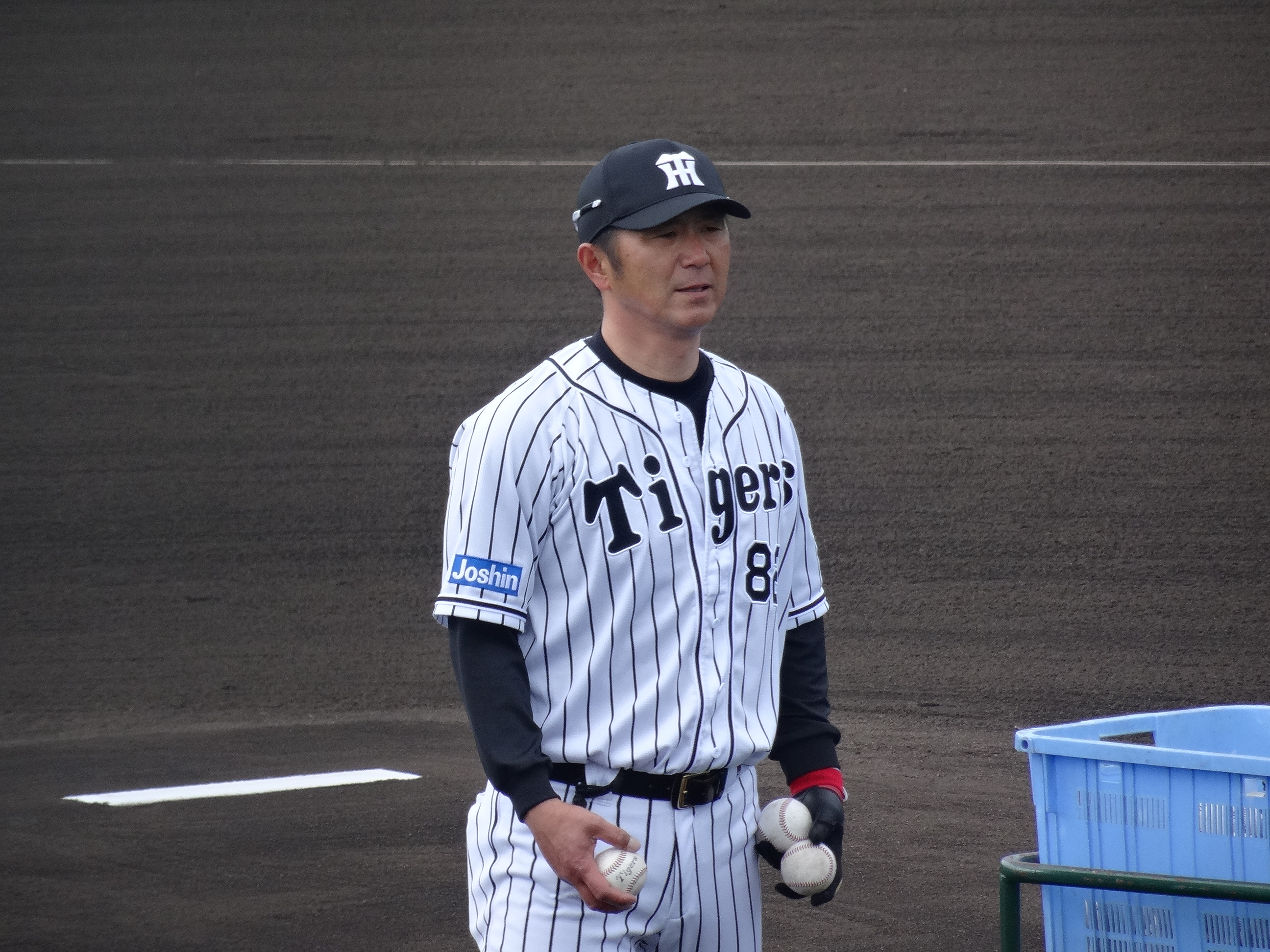 Katsuhiko Yamada, coach of the Hanshin Tigers, at Hanshin Naruohama Baseball Ground